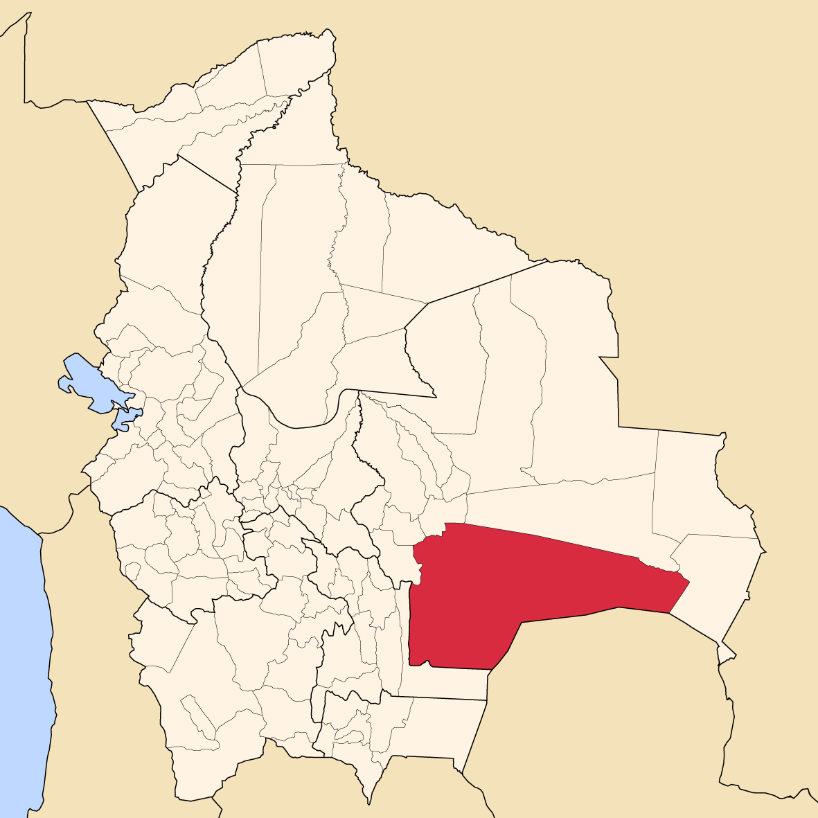 Map of Bolivia showing Cordillera province, Santa Cruz